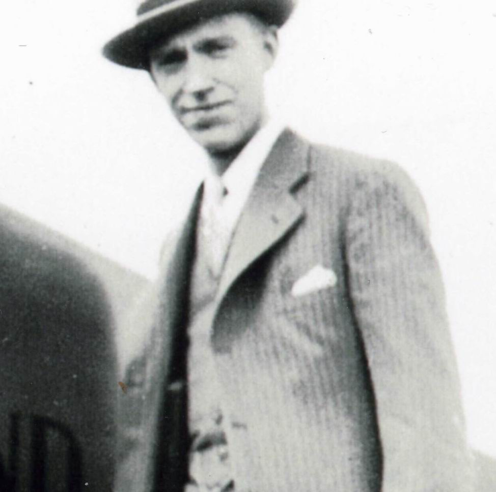 Carl Cover in front of Inter-Island Airways (Hawaiian Airlines) Bellanca Pacemaker 1929